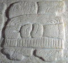 R Villalobos, Tikal emblem Glyph in Stela at Tikal's museum 画像:Tikalemblem.jpg